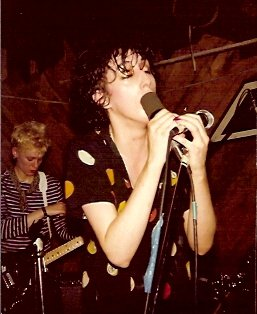 Cynthia Dley and pat place of Bush Tetras onstage at The Underground, Boston, 1981.